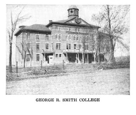 George R. Smith College